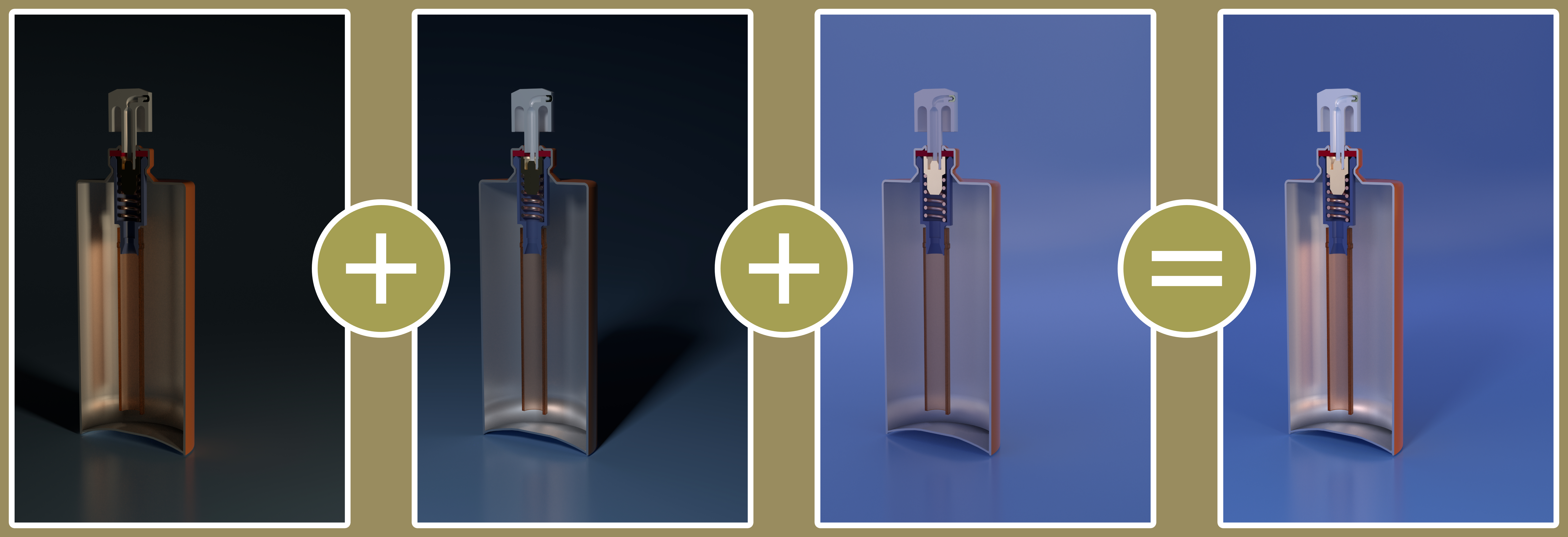 Rendering with three light groups (two area lights and one sky light) in LuxRender. This enables lights to be mixed or modified later on, to achieve different lighting conditions while rendering the scene only once.